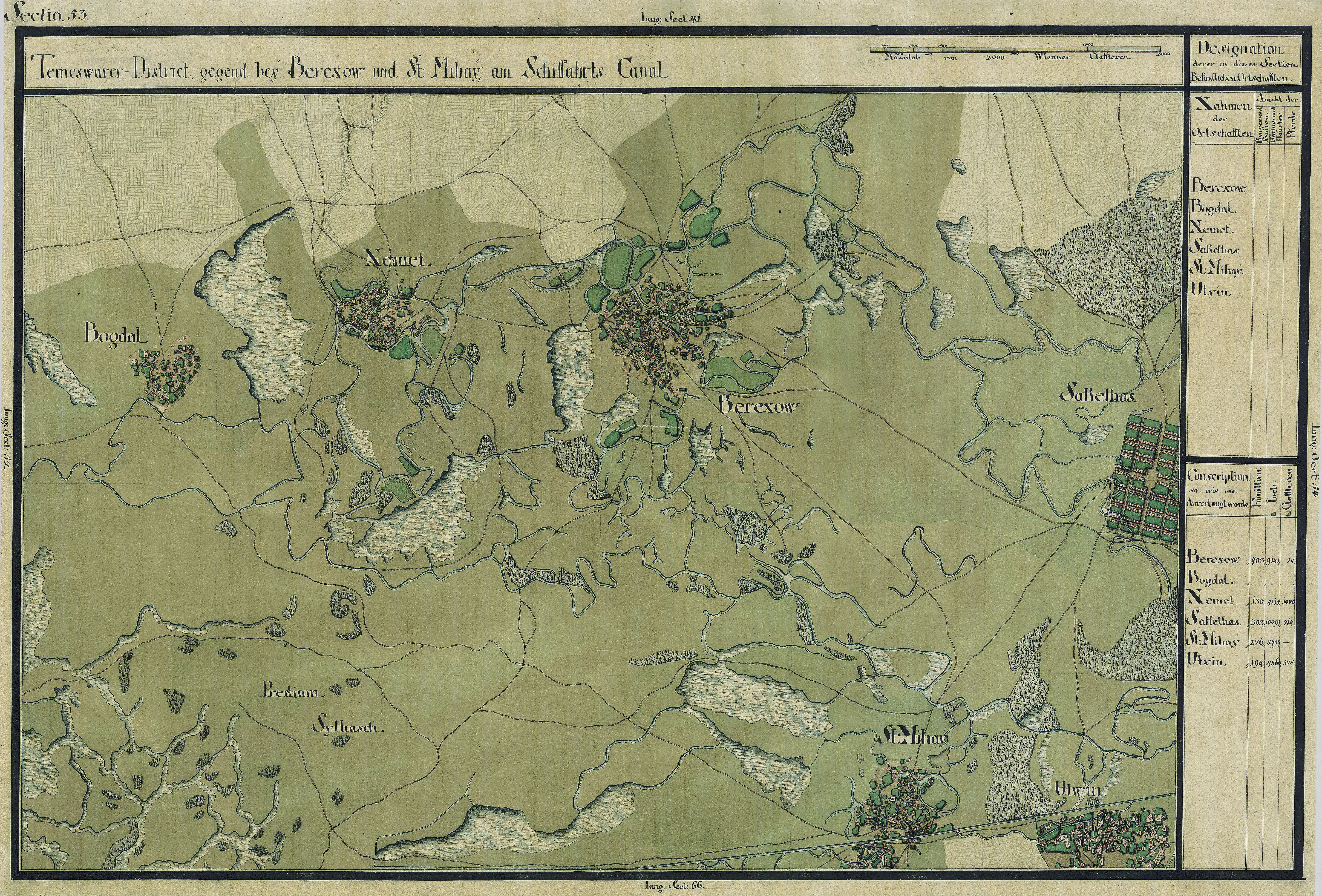 The Banat region in the cadastral maps: Josephinische Landesaufnahme, 1769-72. Josephinische Landaufnahme pg053